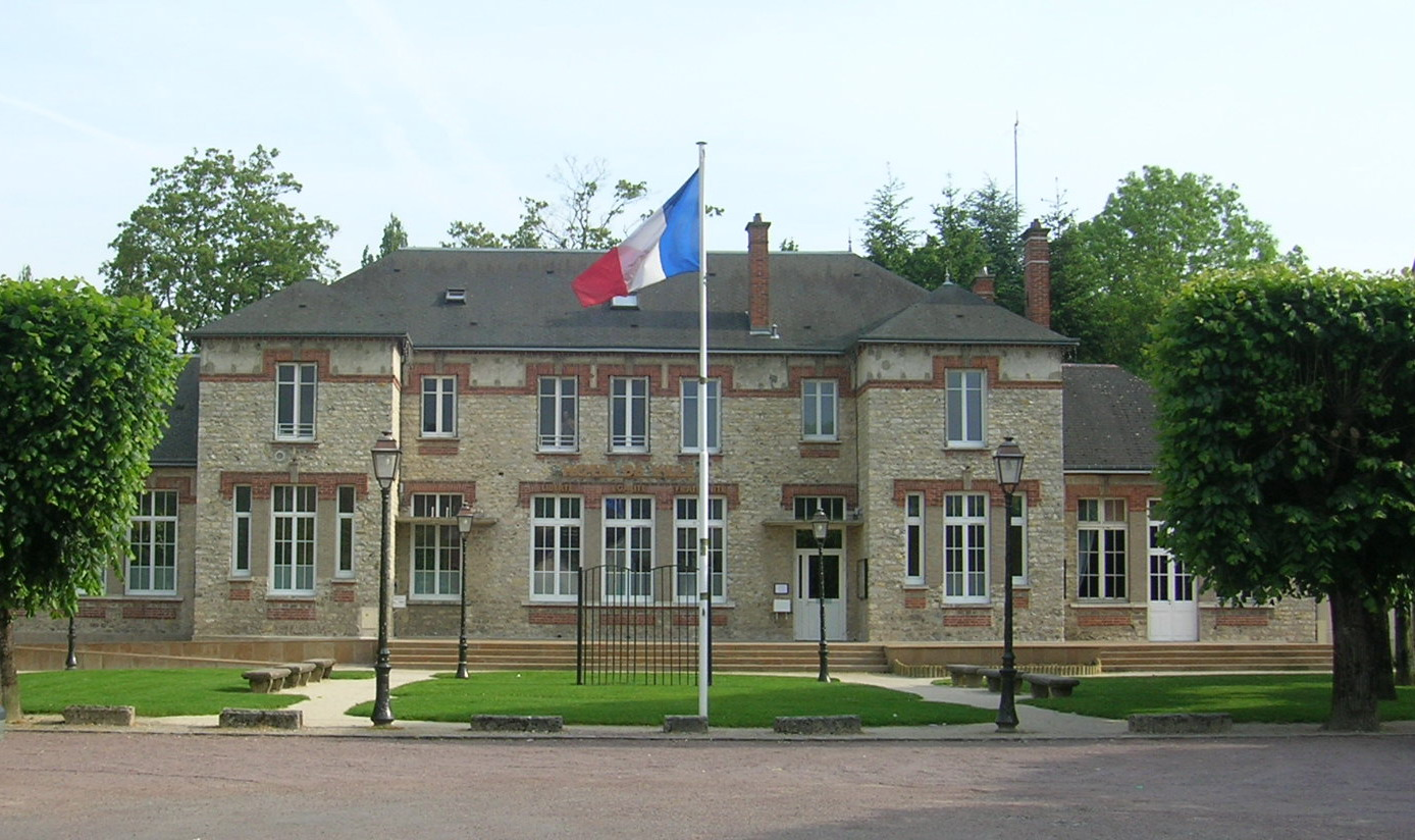 City Hall of Lèves